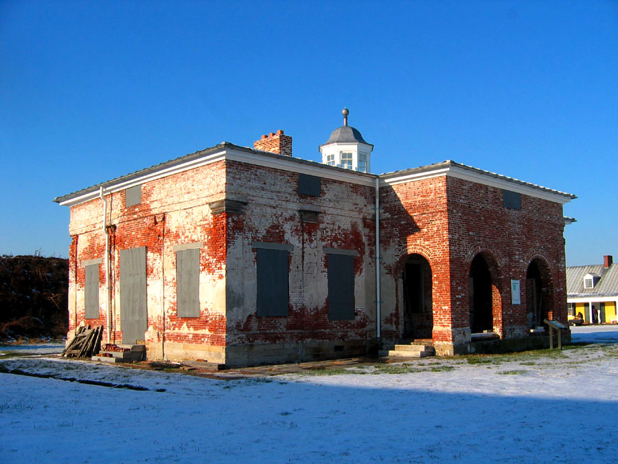 Fort Mifflin Commandant's House Taken in Philadelphia, Pennsylvania, in December 2003.